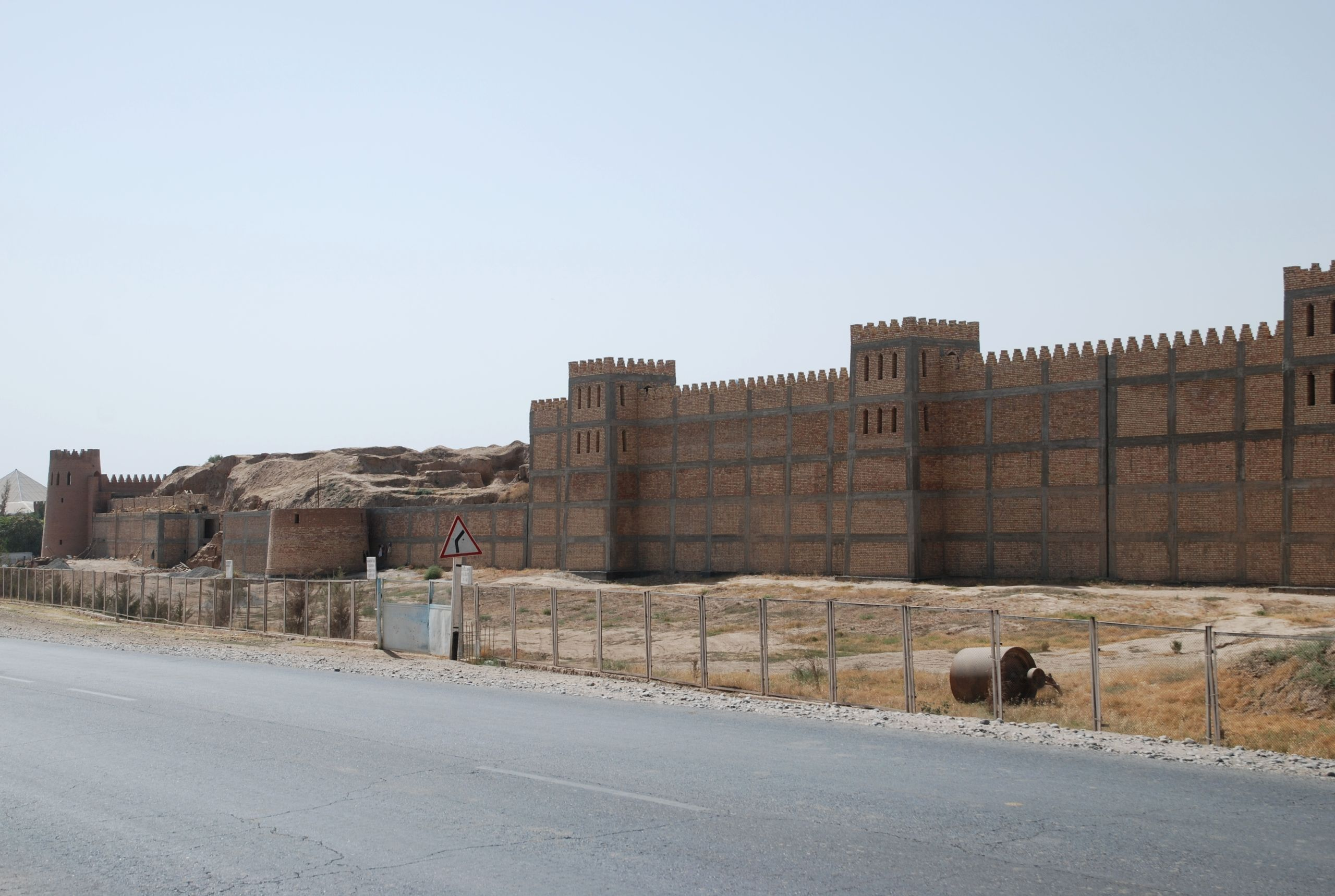 Hulbuk, Khurbon Shahid, citadel east side